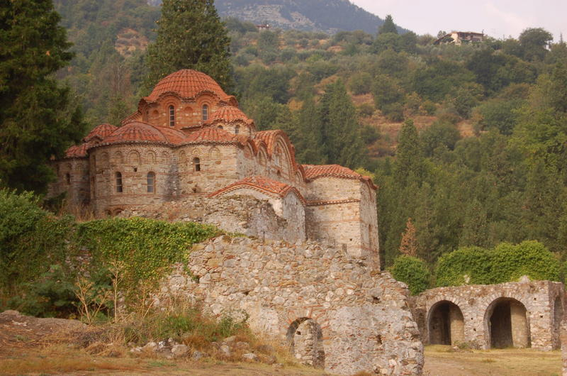 Monastery of Hodegetria (Aphendiko) in MystrasMonastère de Vrontochion